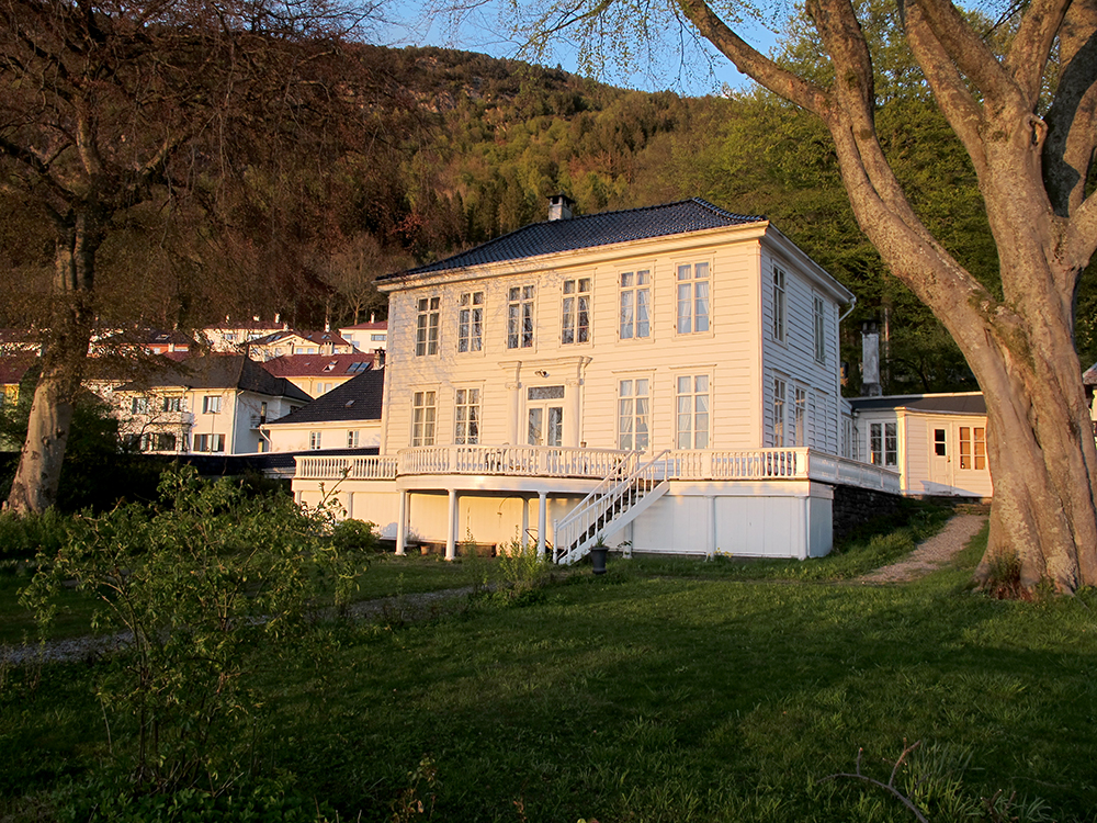 View from garden